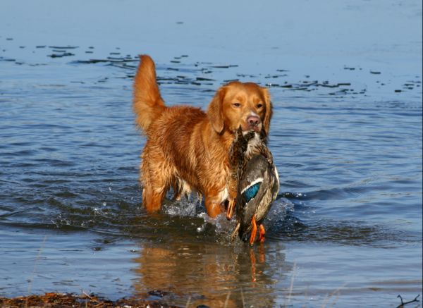 Nova Scotia Duck Tolling Retriever